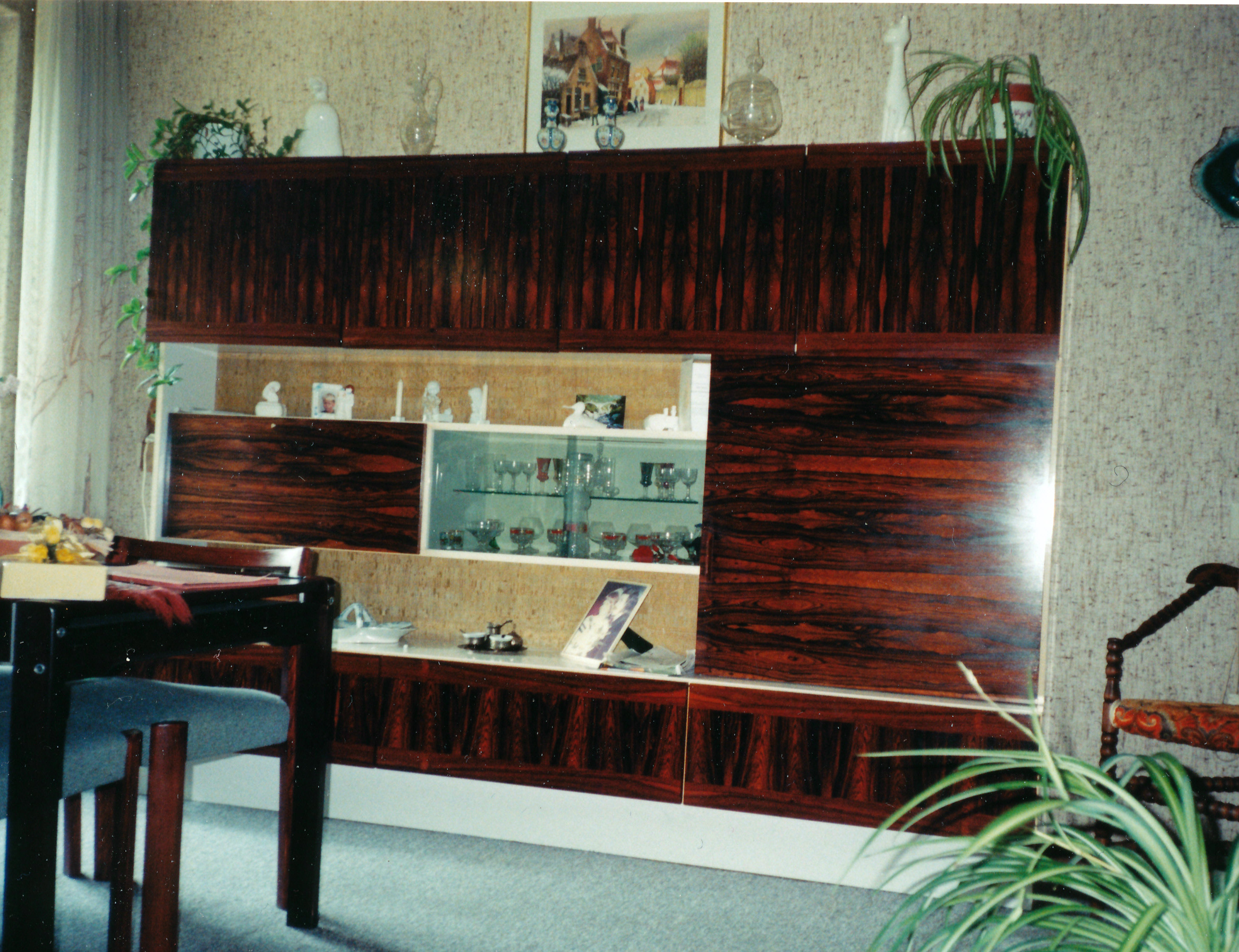 Fristho piece of furniture in room of former employee